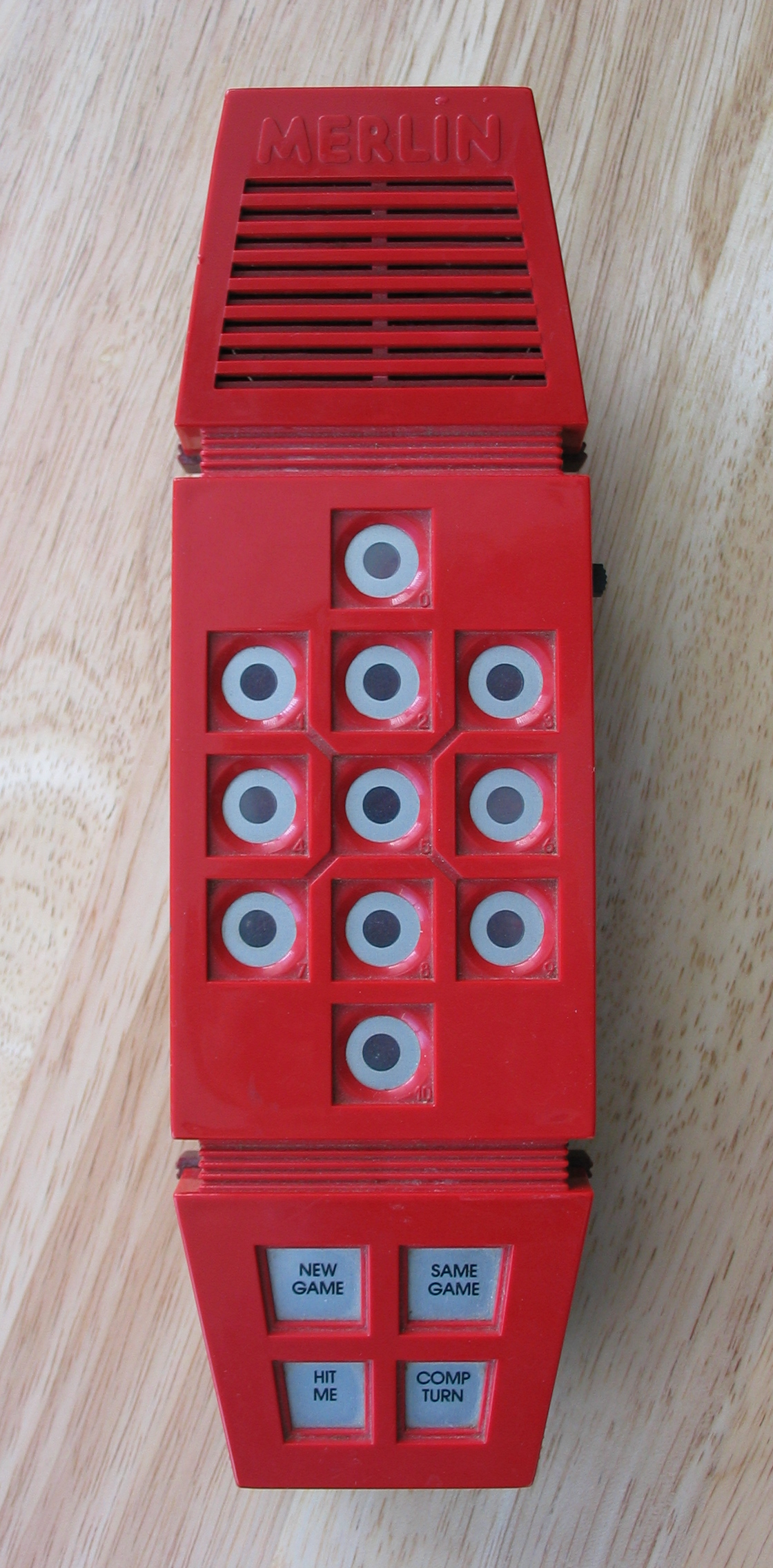 Merlin by Parker Brothers (1978).